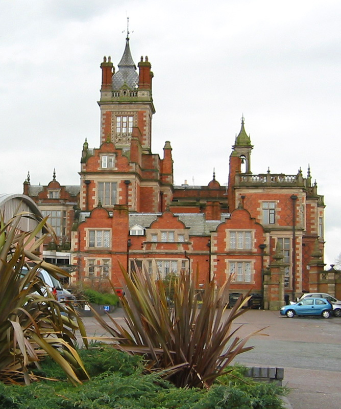 Crewe Hall (west view), near Crewe, Cheshire